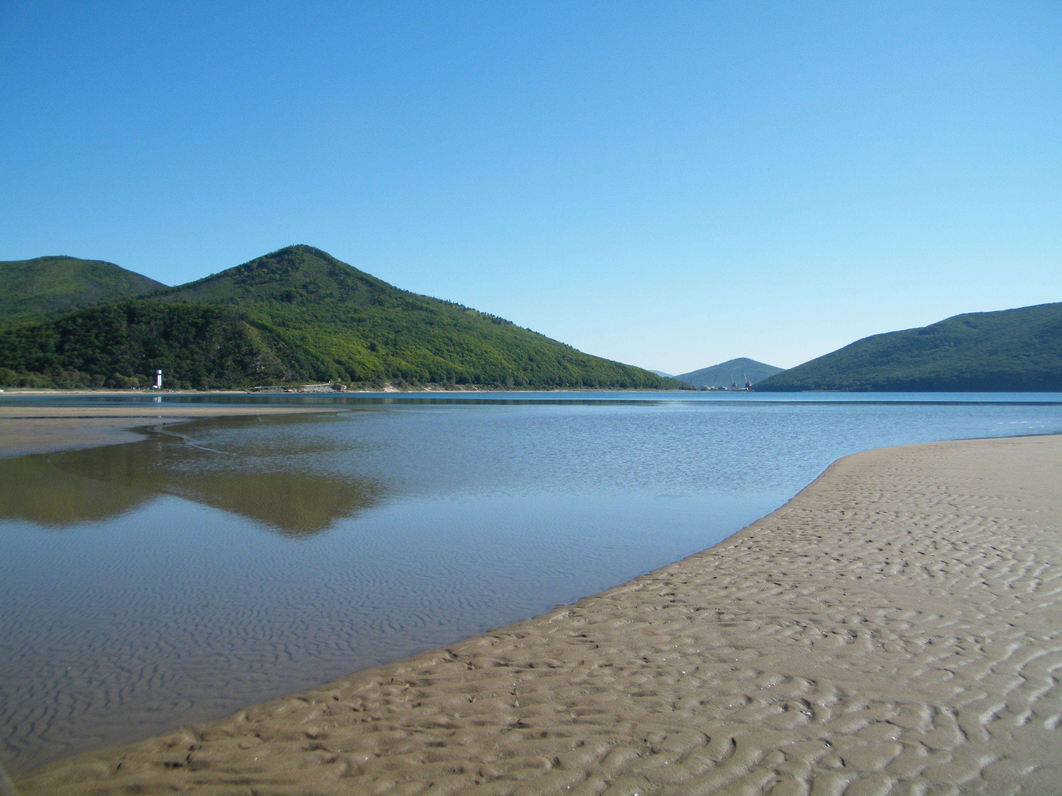 Olga Bay